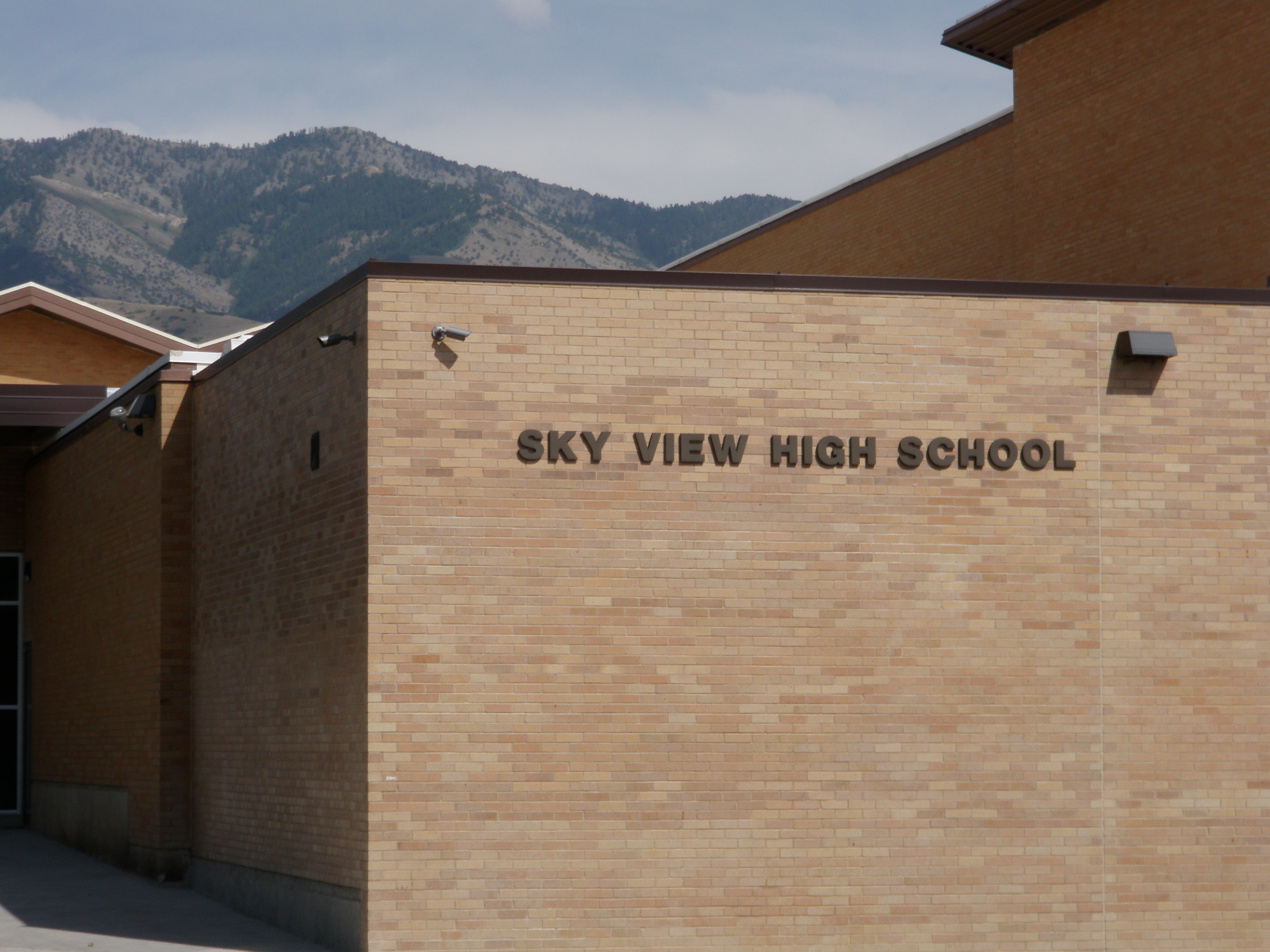 Picture of Sky View High School to accompany Wikipedia article